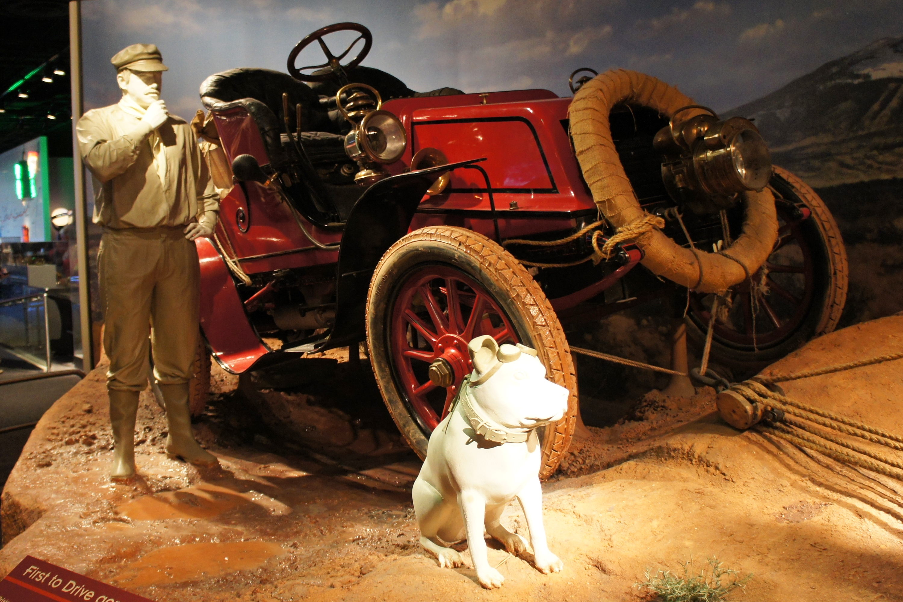 1903 Winton touring car exhibited at the National Museum of American History, Washington, D.C., illustrating the first transcontinental automobile trip in this car made by H. Nelson Jackson in the spring and summer of 1903.